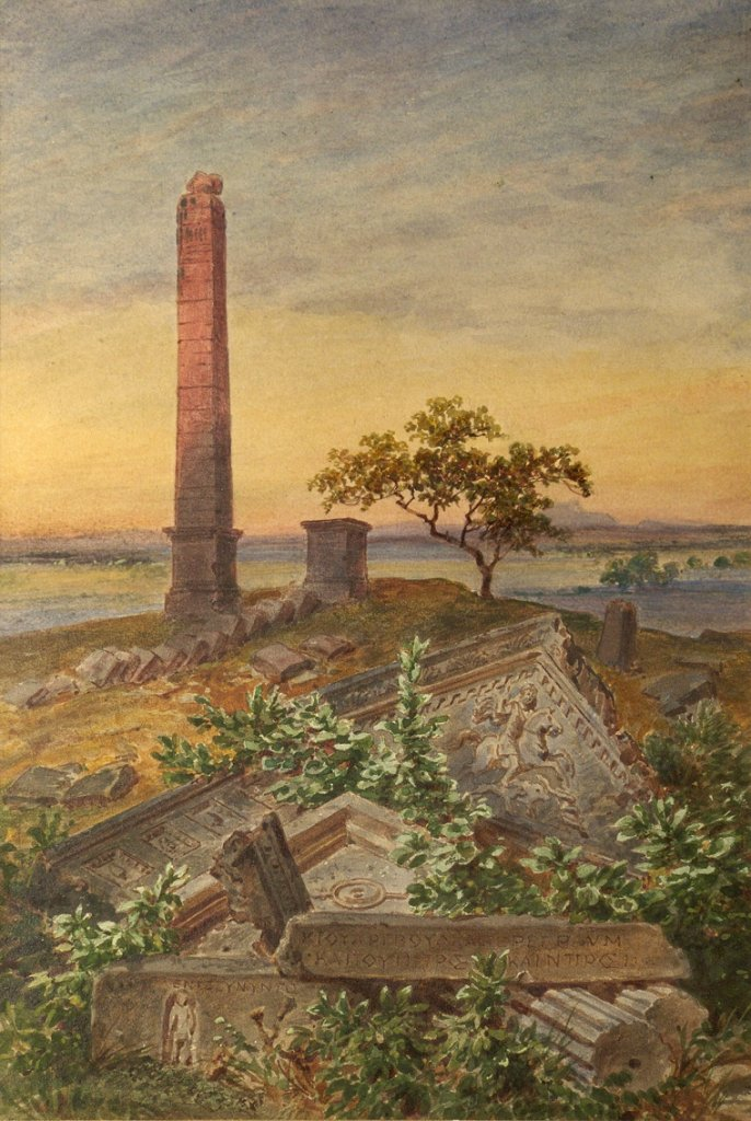 Antique ruins near the village of Yalar by Felix Kanitz